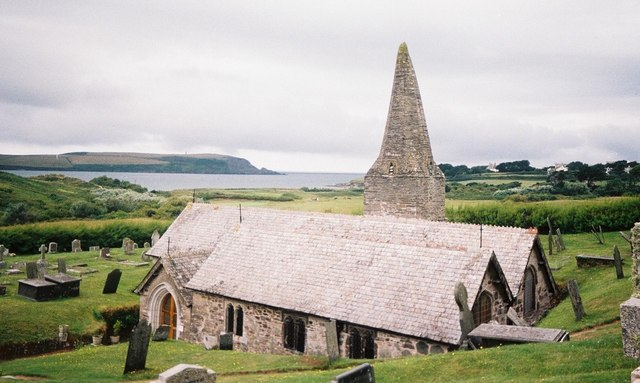 The church in the golf course St. Enodoc, near Trebetherick, sits among the sand dunes around which is a golf course. Stepper Point is in the distance.